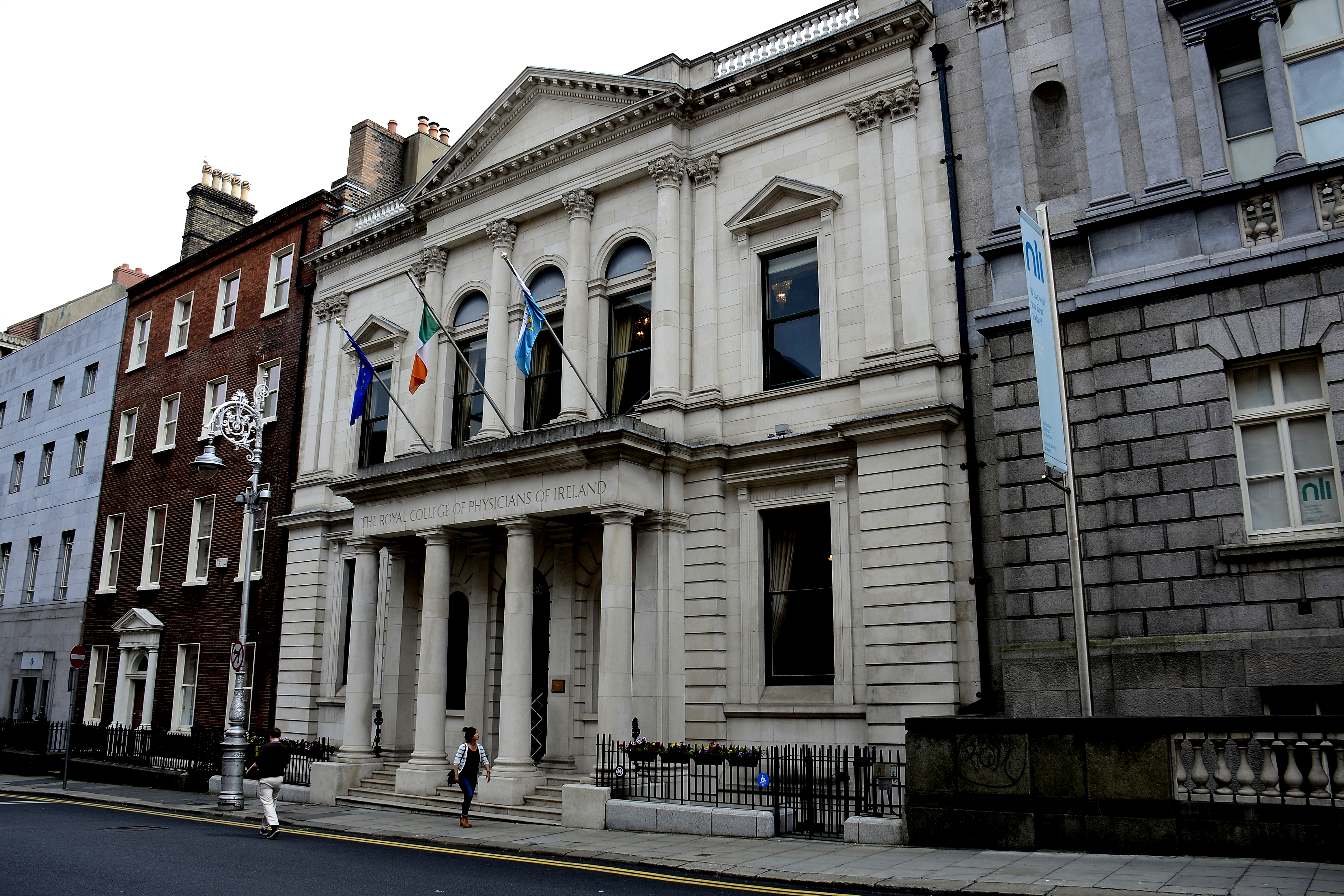 The Heritage Center building of the Royal College of Physicians of Ireland, No.6 Kildare Street, Dublin 2. This Center offers a range of conference and event facilities in the heart of Dublin city. Membership and Fellowship ceremonies of the College are held here.